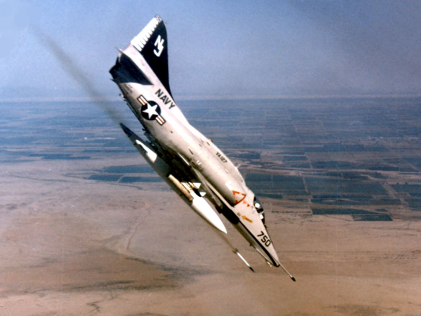 A U.S. Navy Douglas A-4F Skyhawk (BuNo 154975?) from Attack Squadron 127 (VA-127) firing unguided rockets.